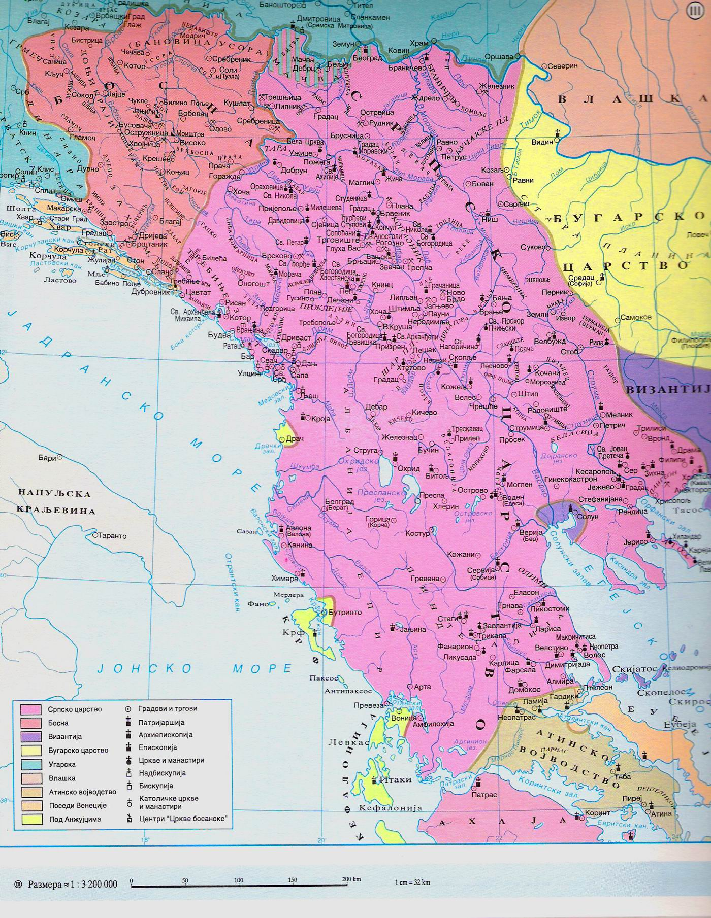 Serbia during the rule of Tzar Dusan Silni, cca 1350 A.D.